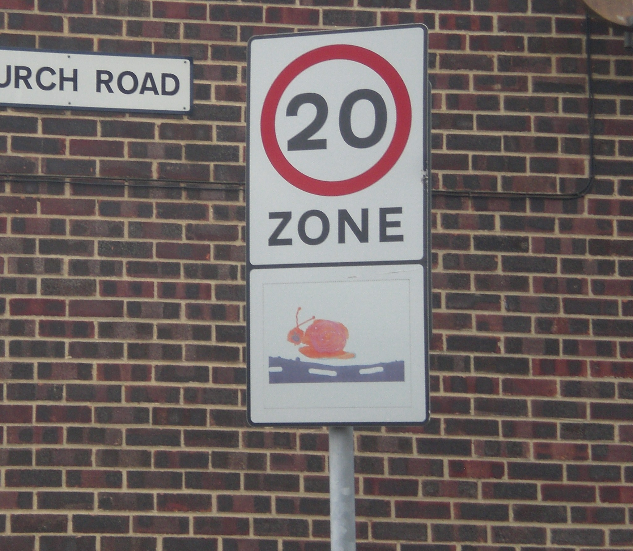 A sign for a 20mph speed zone area. A child's drawing features at the bottom.